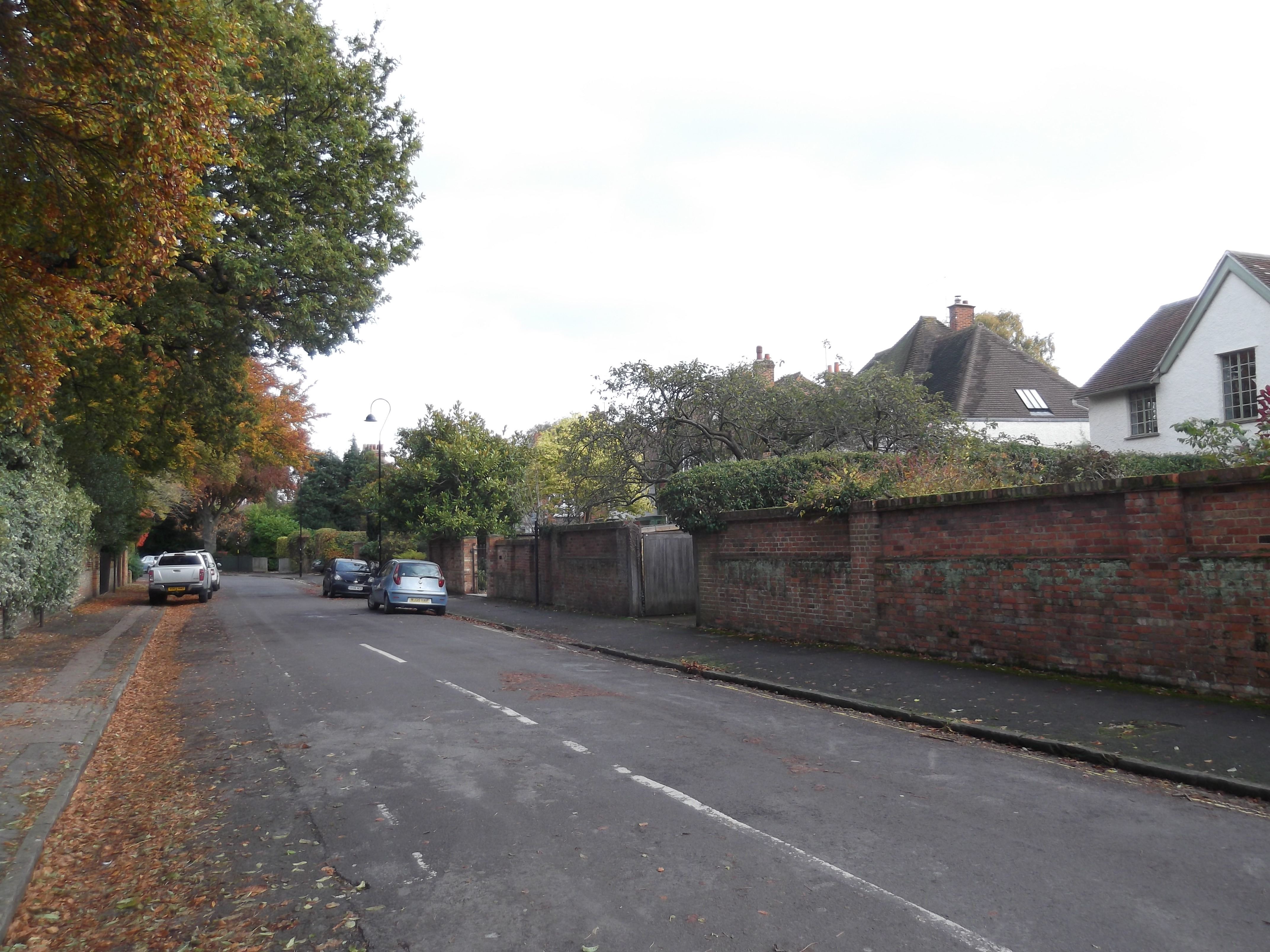 Street in north Oxford, England.